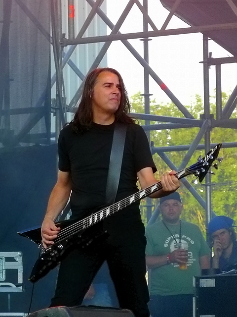 Jean-Yves Thériault '09